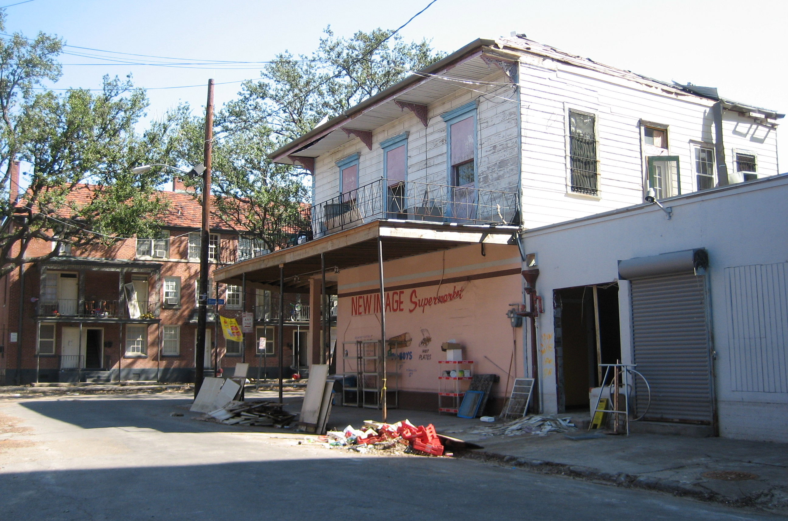 New Orleans after Hurricane Katrina: One of the few surviving buildings from the historic Storyville Red Light District. Most recently, New Image Grocery Store; a century earlier, Frank Early's Saloon. Notice line, especially visible on building at right, left by long standing level of floodwater at about knee level. Photo by Infrogmation of New Orleans, 2005-10